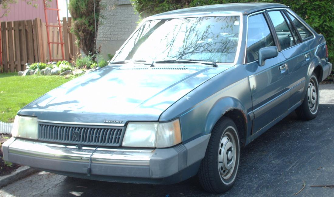 1986 Mercury Lynx photographed in Montreal, Quebec, Canada.